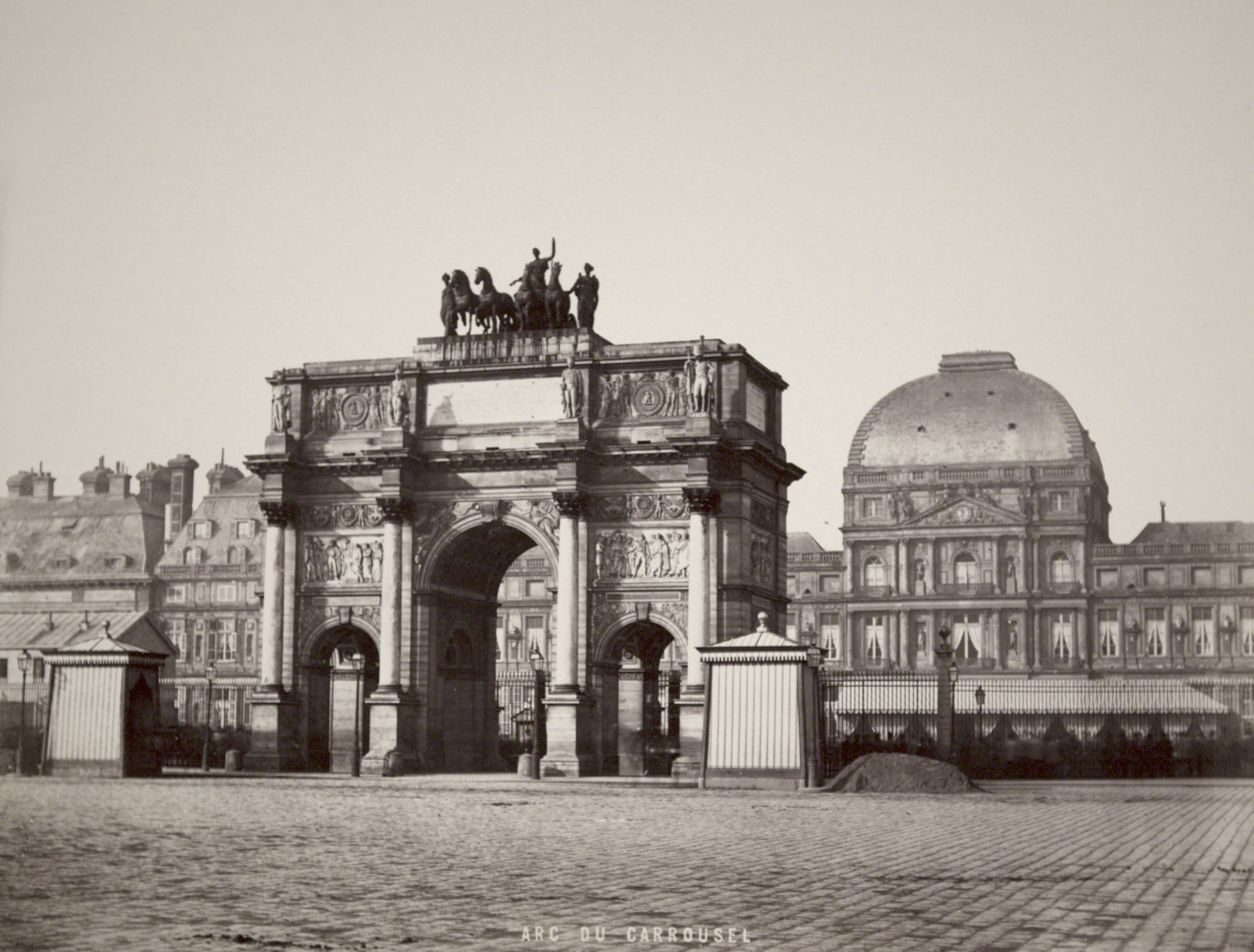 Title: Arc du Carrousel Artist: Achille Quinet Artist Bio: French, 1931 - 1900 Creation Date: c. 1870 Process: albumen print Credit Line: Gift of James Garfinkel Accession Number: 1989.039.038